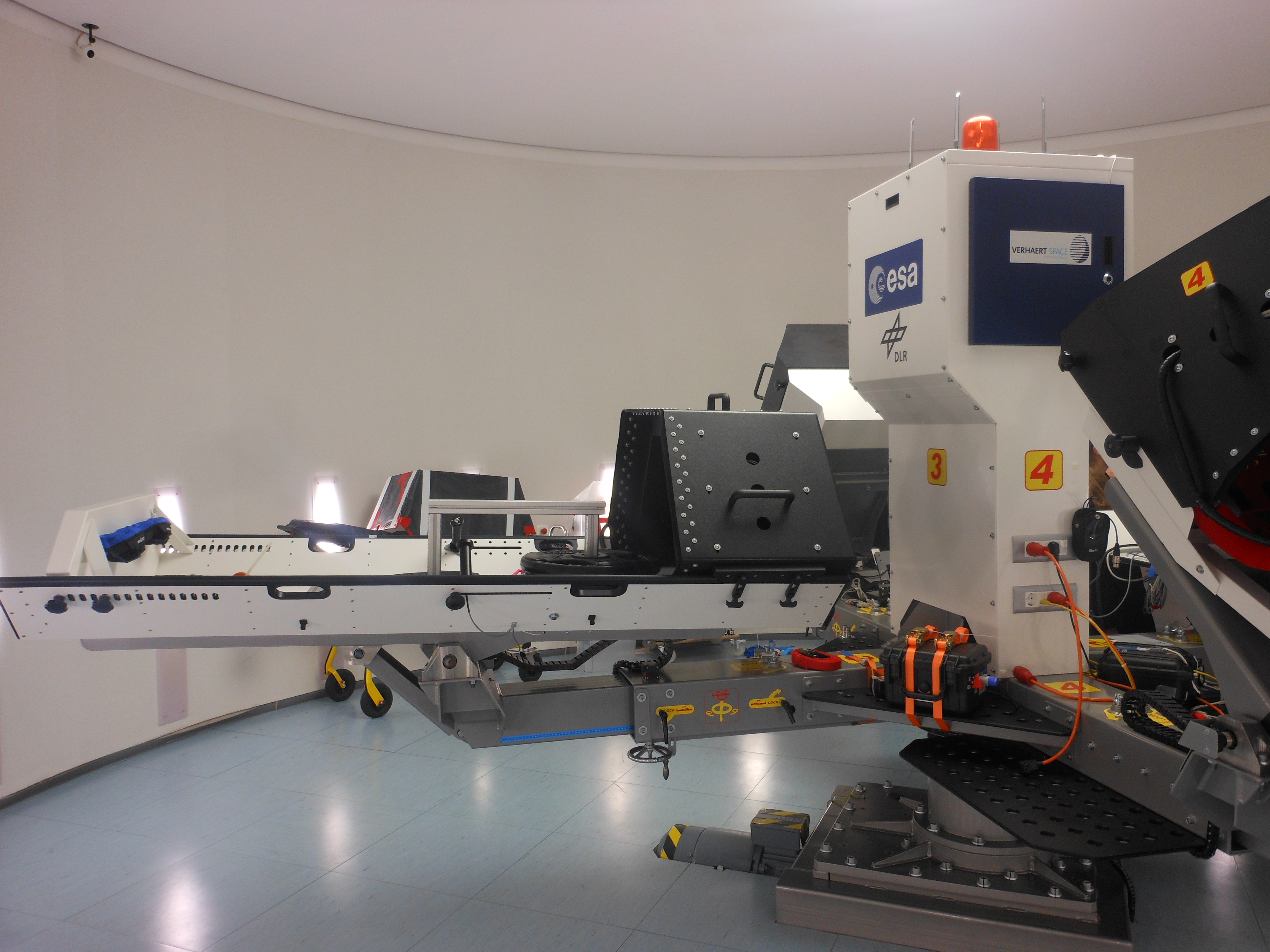 DLR's human centrifuge at the EAC in Cologne, Germany